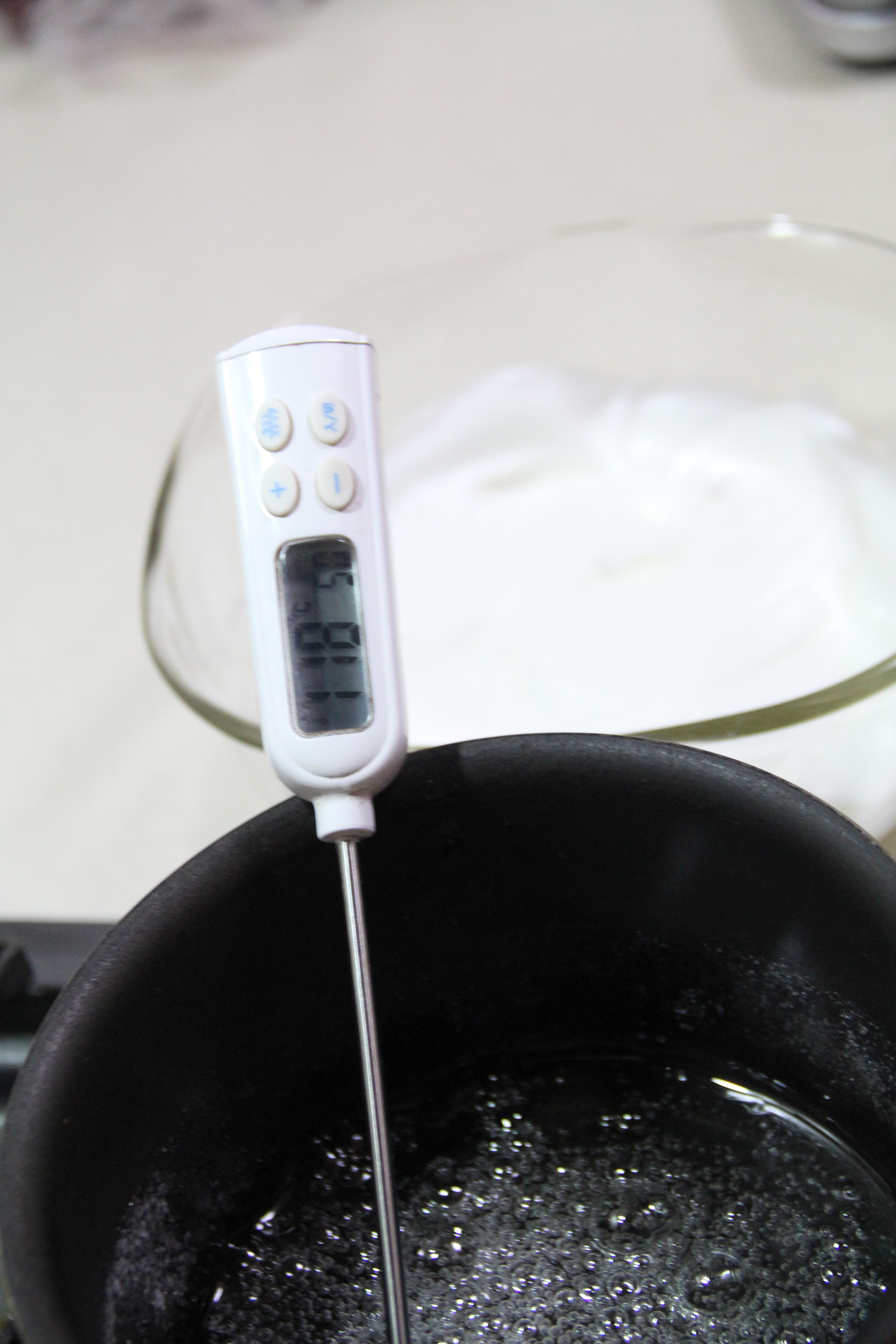 Making Italian Meringue